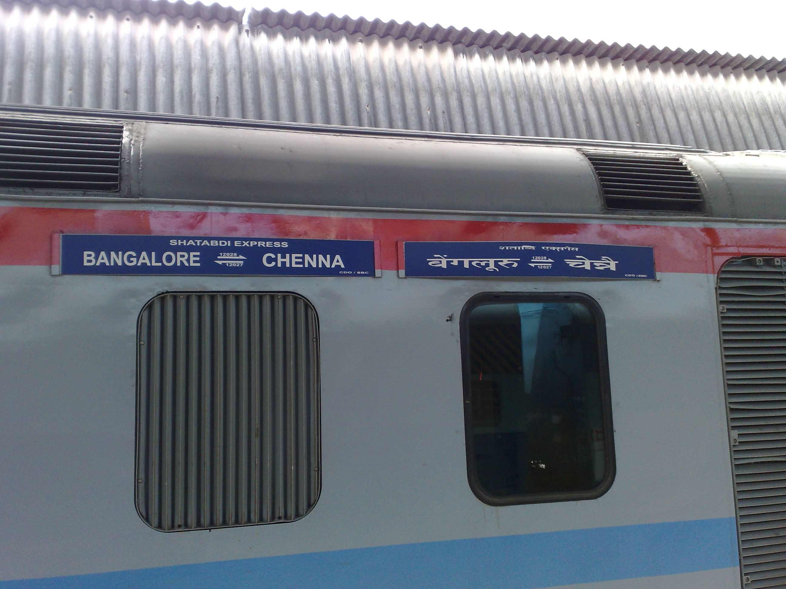 12027 Banglore Shatabdi Express